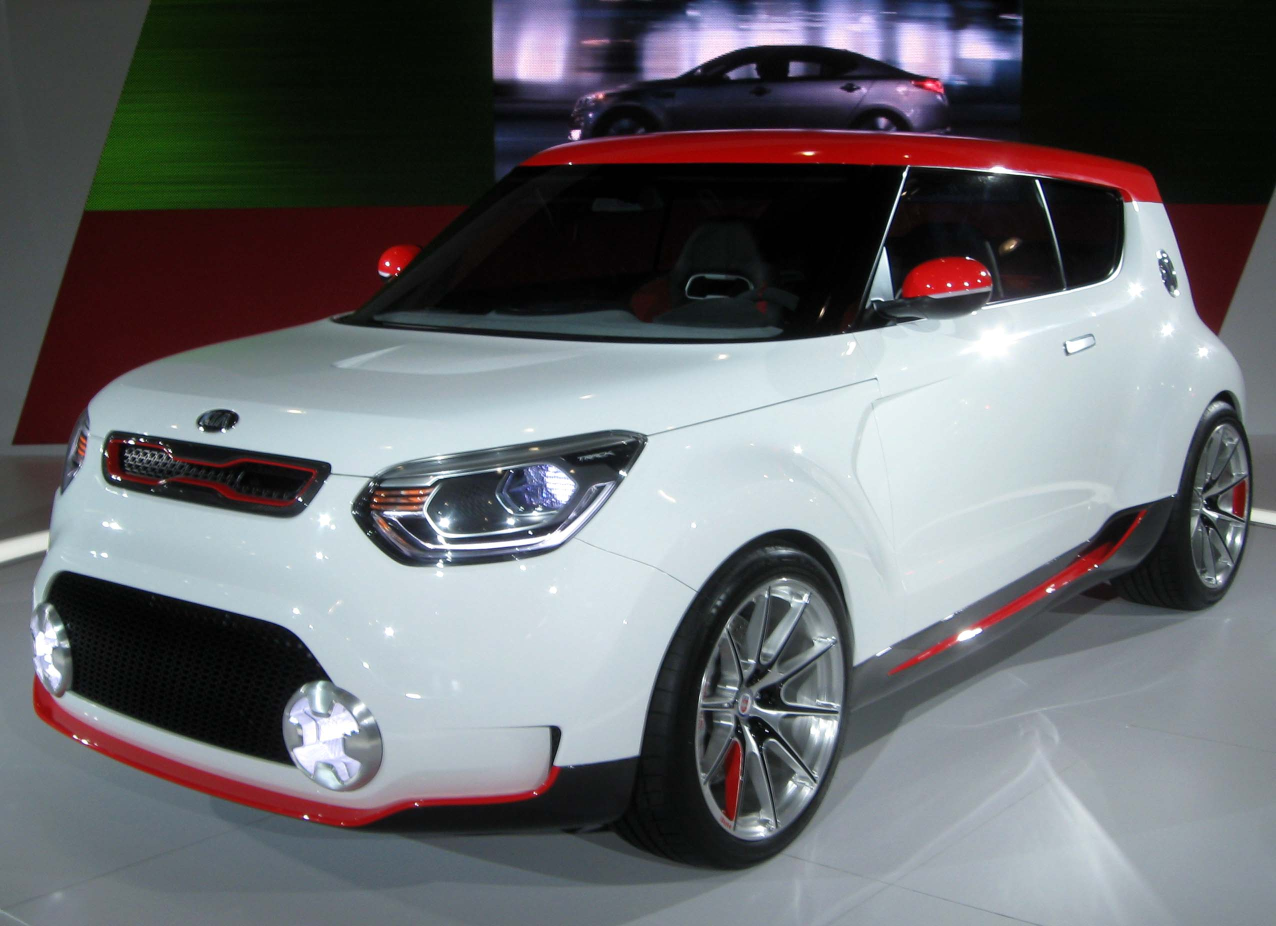 Kia Track'ster concept photographed at the 2012 New York International Auto Show.